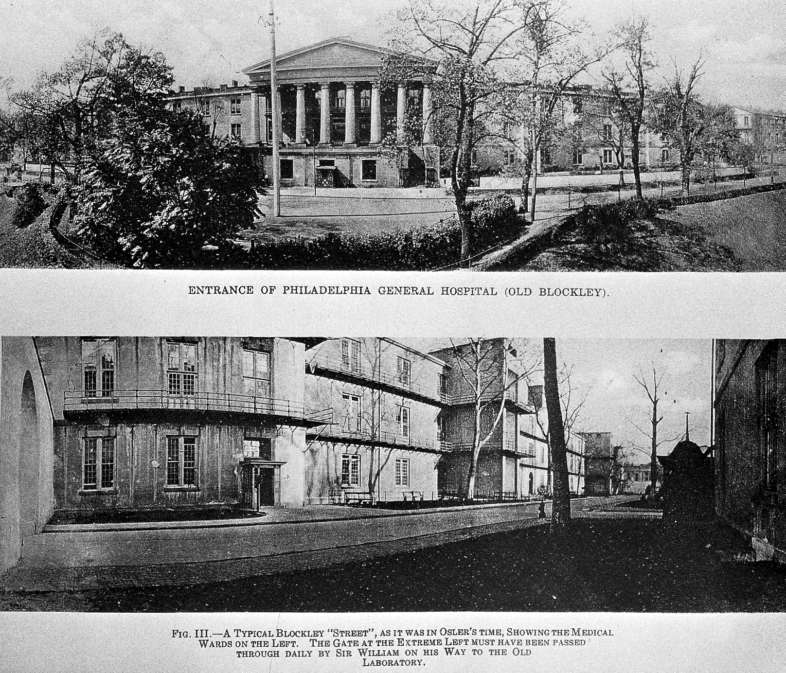 A typical Blockley "Street" as it was in Oser's time, showing the medical wards on the left. Wellcome Images Keywords: America; Institutions; Americas